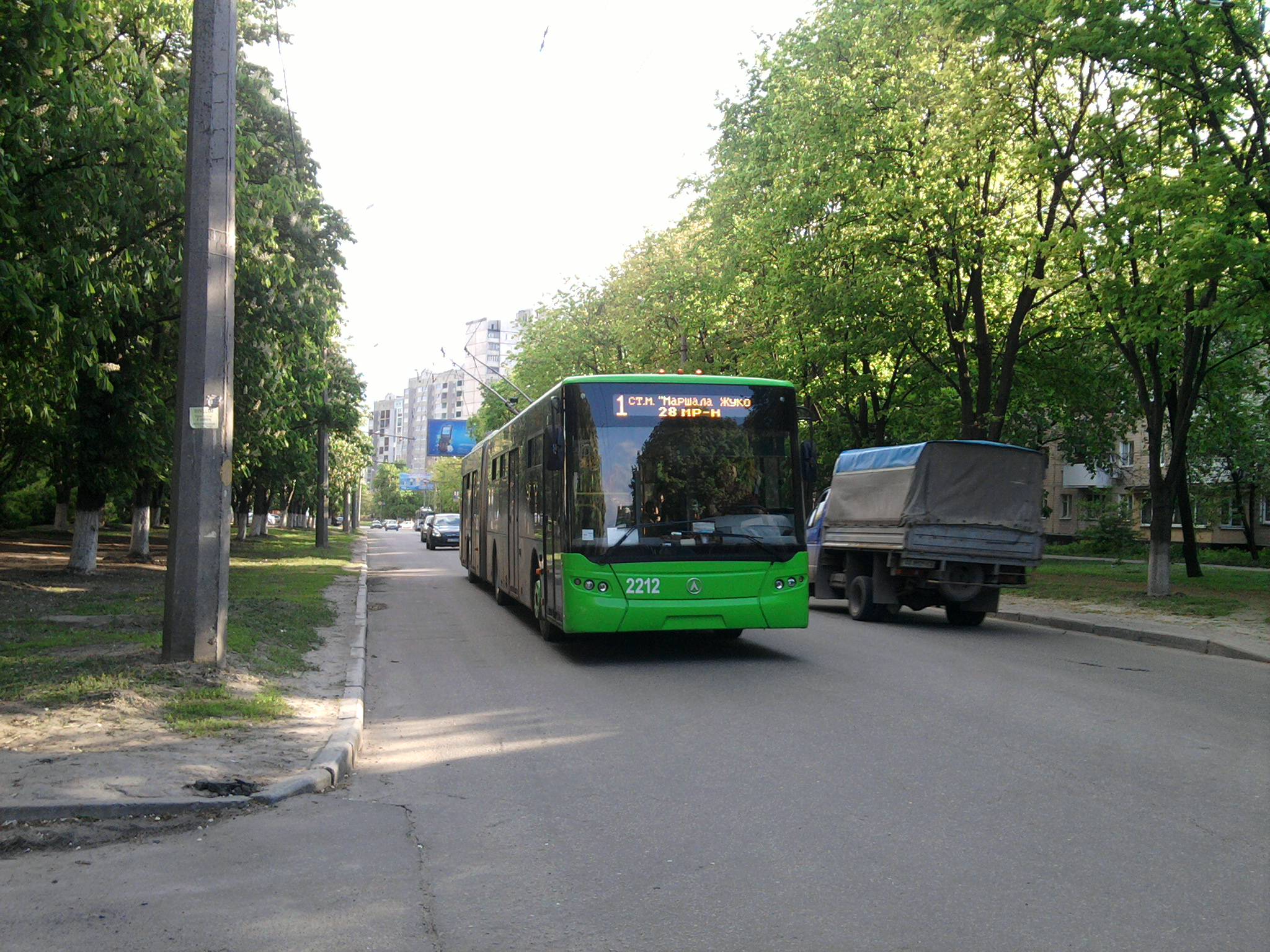 Trolleybus LAZ-E301D1 at Marshala Zhukova avenue in Kharkiv, Ukraine